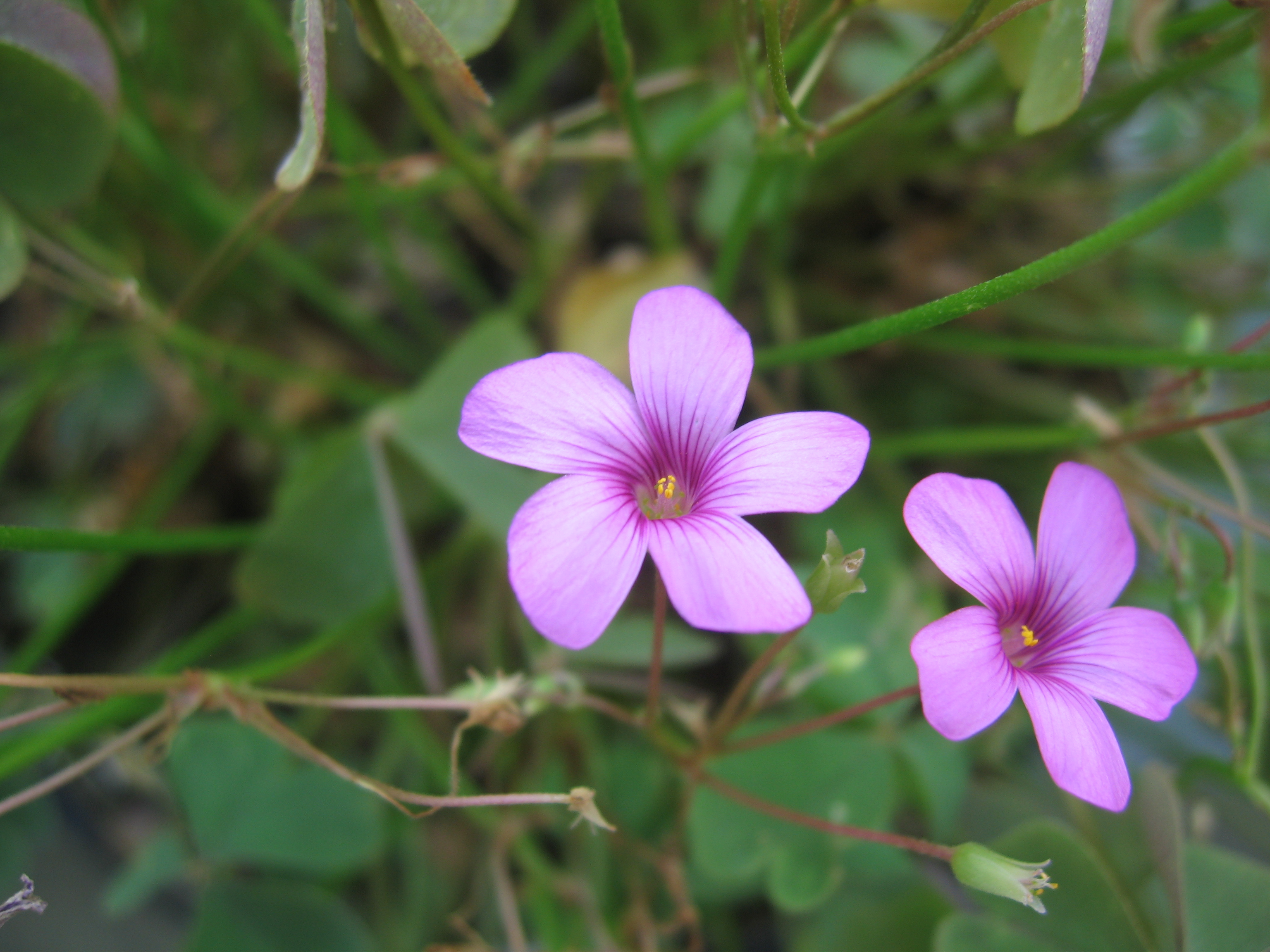 Oxalis articulata flowers